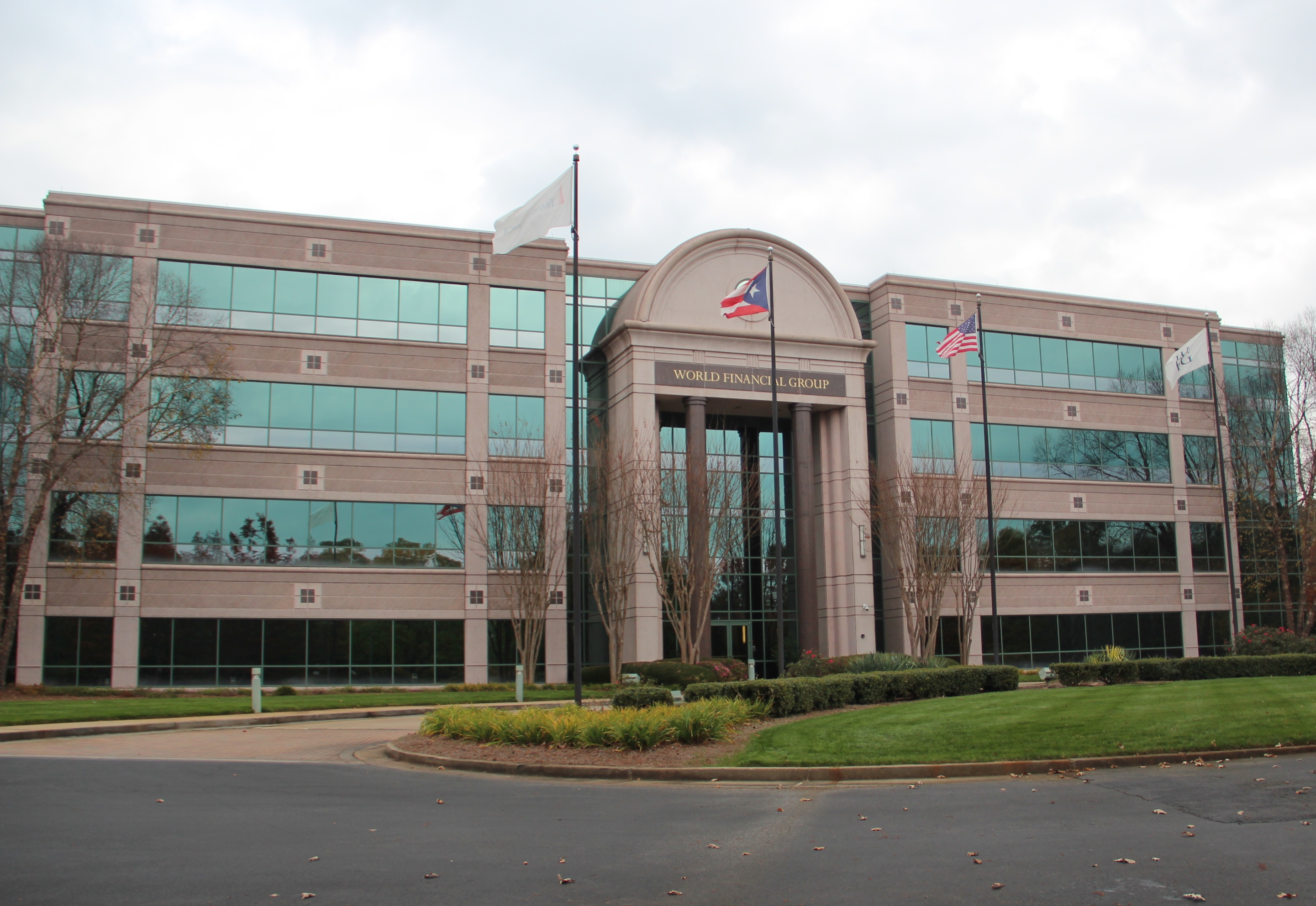 11315 Johns Creek Pkwy, Johns Creek